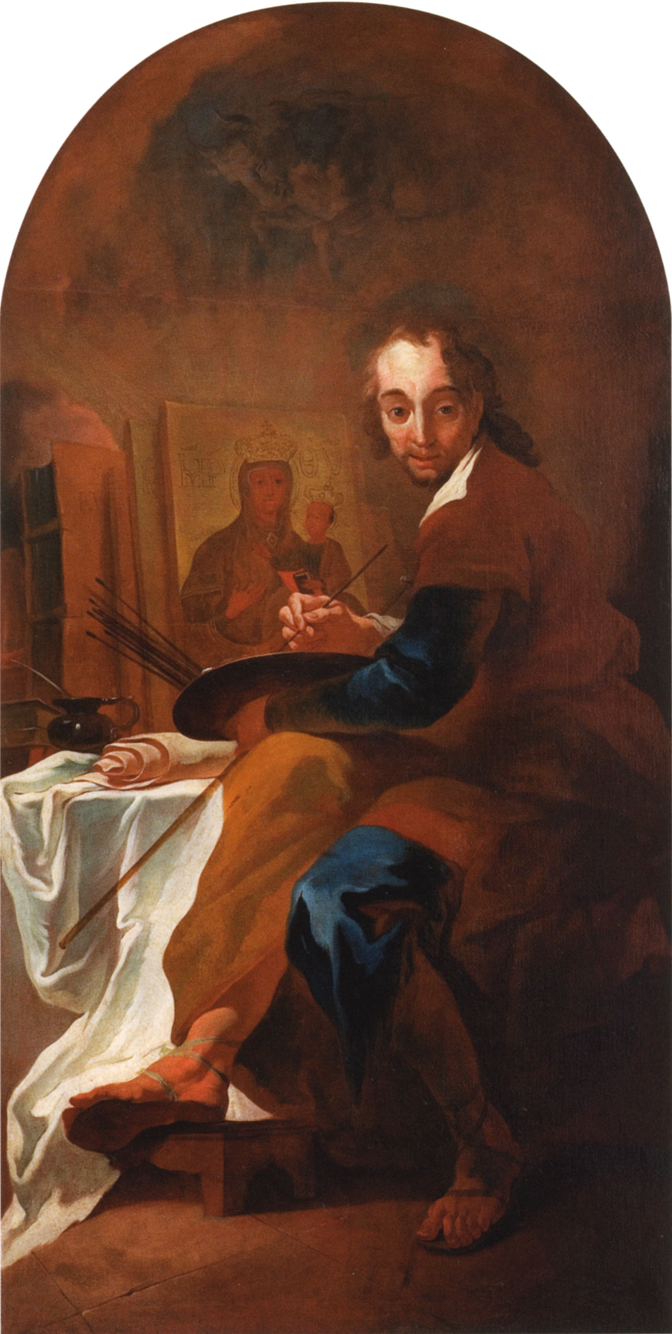 St Luke the Evangelist painting the Virgin